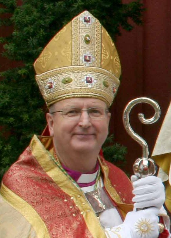 Portrait of Evert Sundien bishop of the Liberal Catholic Church in Sweden